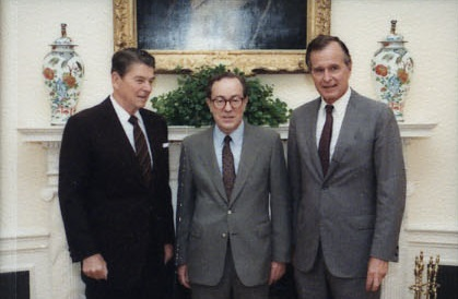 Ronald Reagan poses with James Goodby and George H. W. Bush in Oval Office